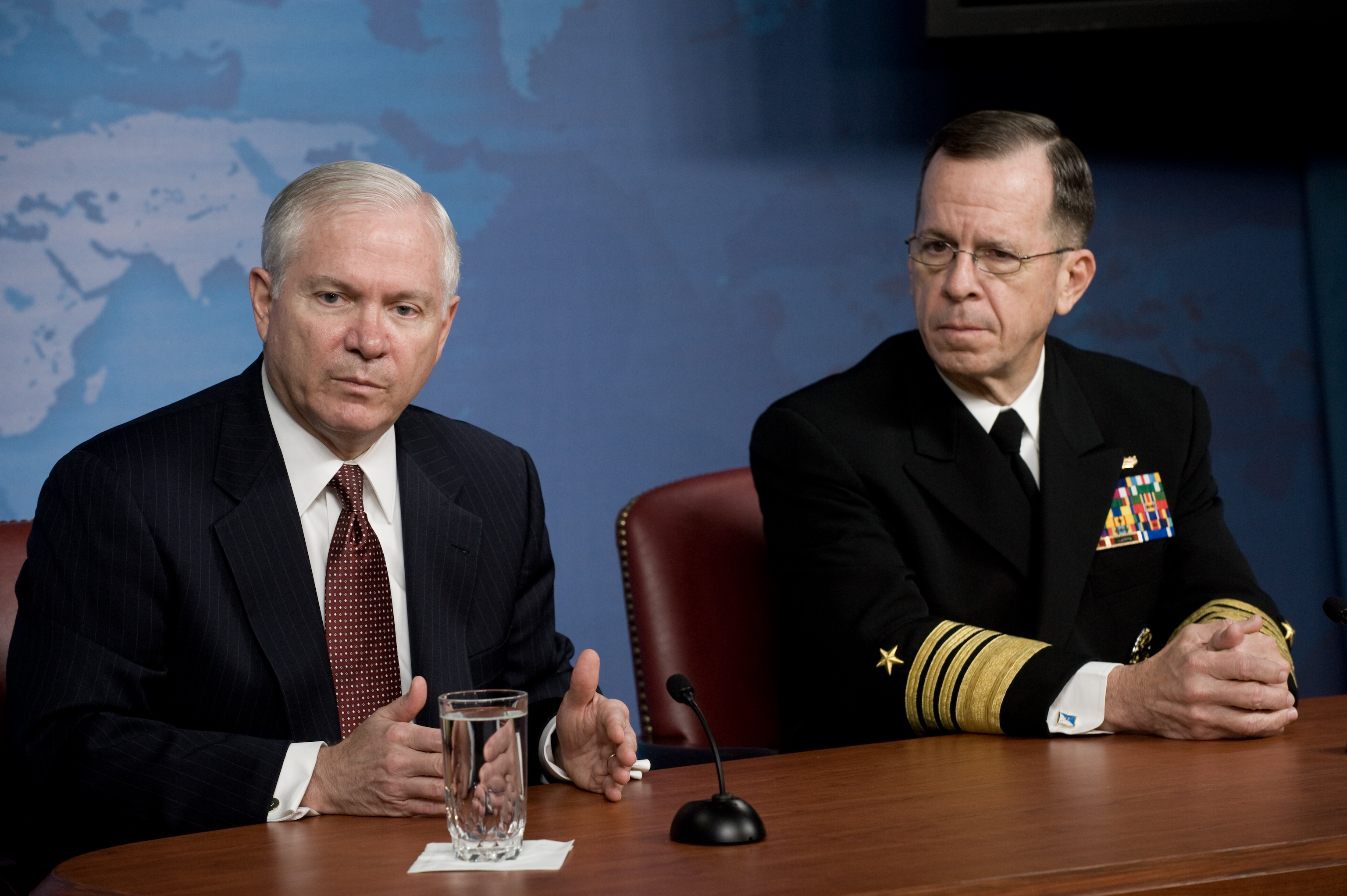 Defense Secretary Robert M. Gates, left, and U.S. Navy Adm. Mike Mullen, chairman of the Joint Chiefs of Staff, brief reporters at the Pentagon on the way ahead in Iraq, April 11, 2008.